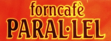 Barcelona, baker’s shop in the Paral·lel road (delail of the shop sign). The shop takes its name from the road which is written using an interpunct.